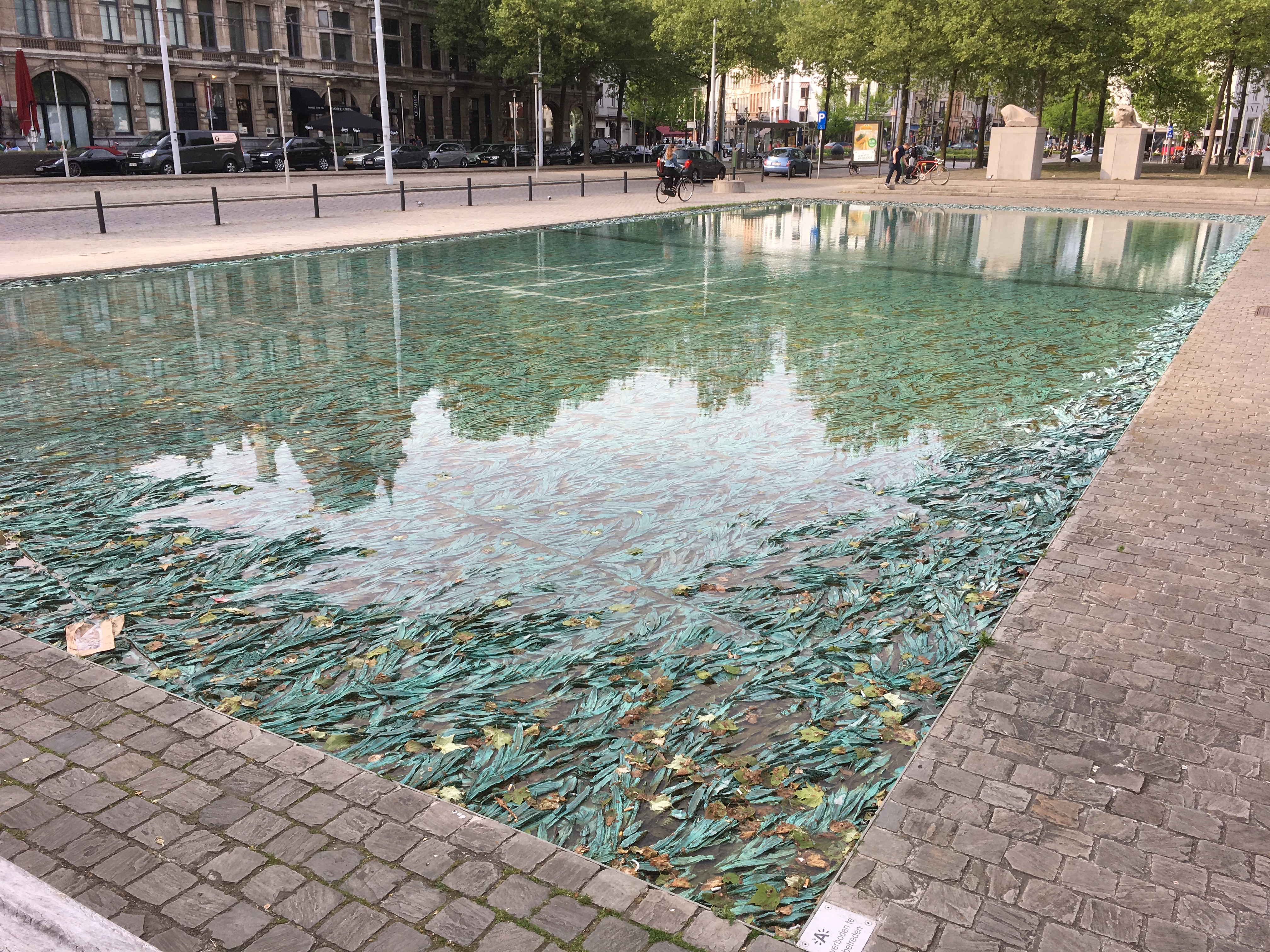 Public sculpture by Cristina Iglesias in Antwerp